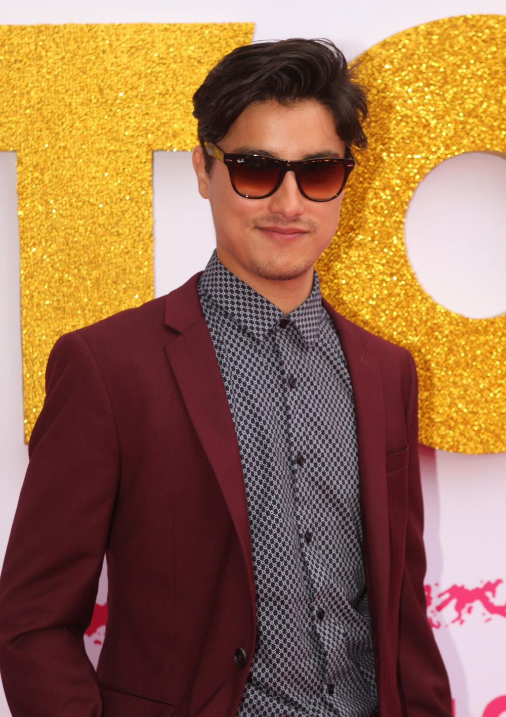 Remy Hll